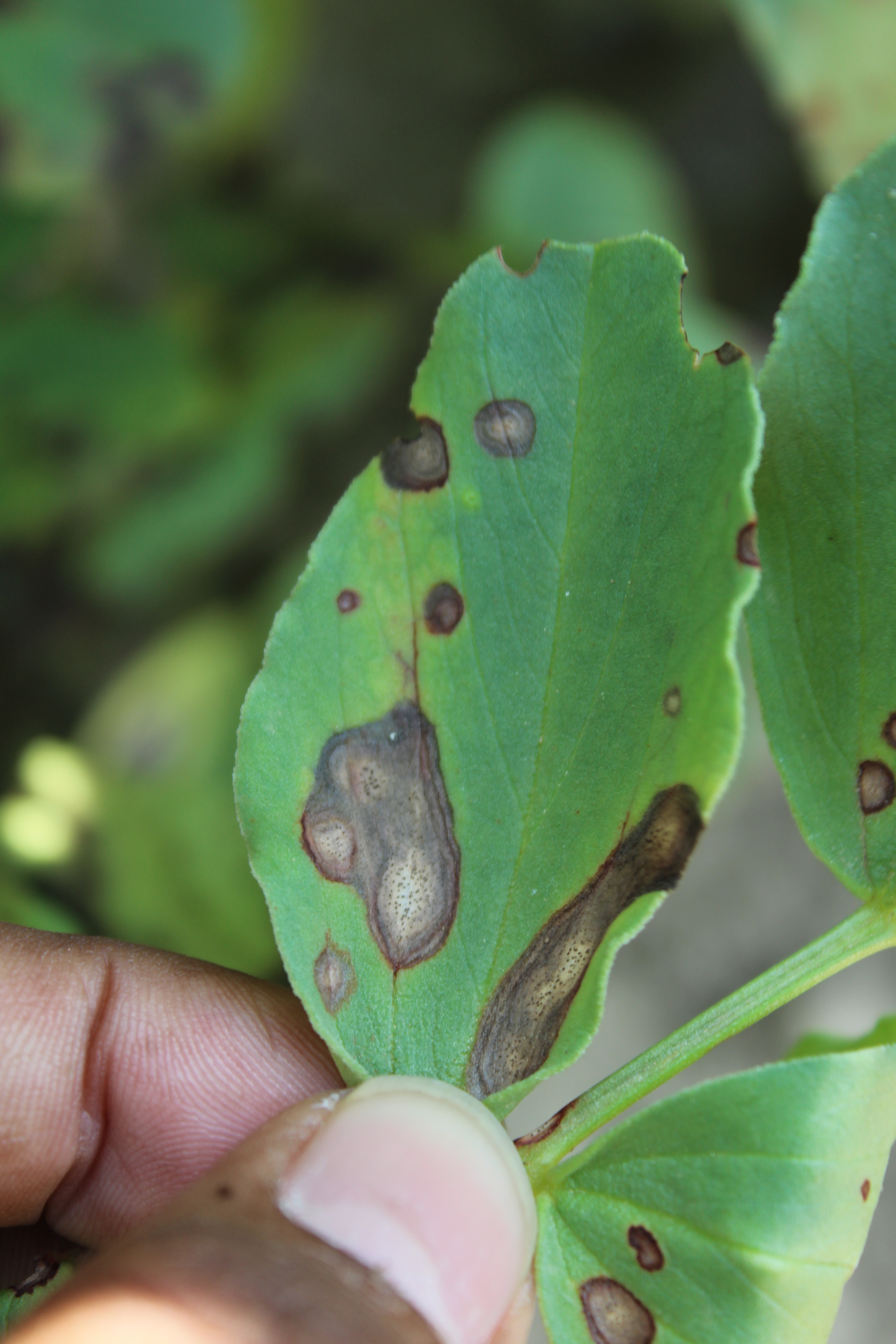 The fungus Ascochyta fabae causing Ascochyta blight on Vicia faba (faba beans)